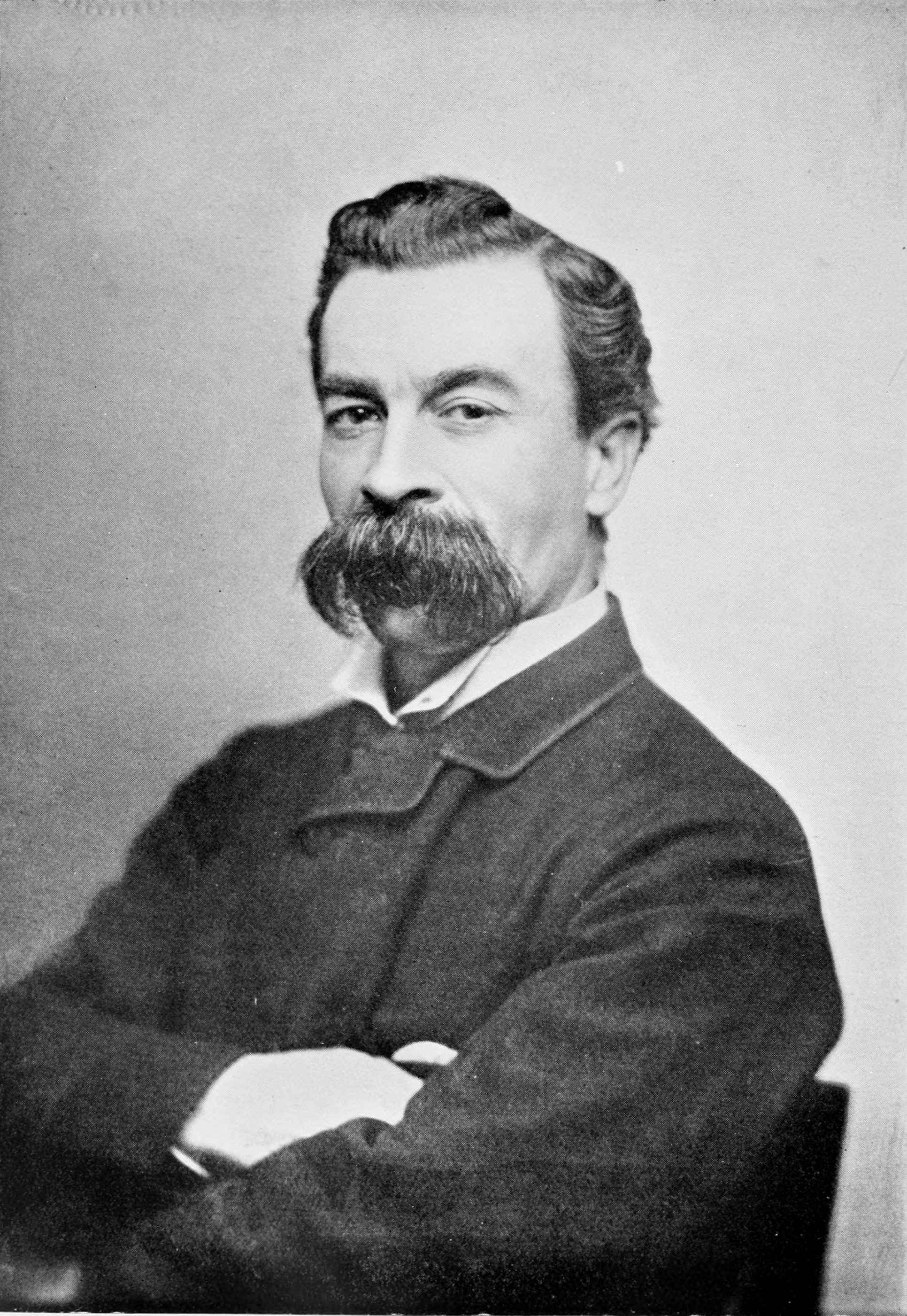 Plate 25 from Makers of British botany (1913), depicting Harry Marshall Ward (1854–1906).